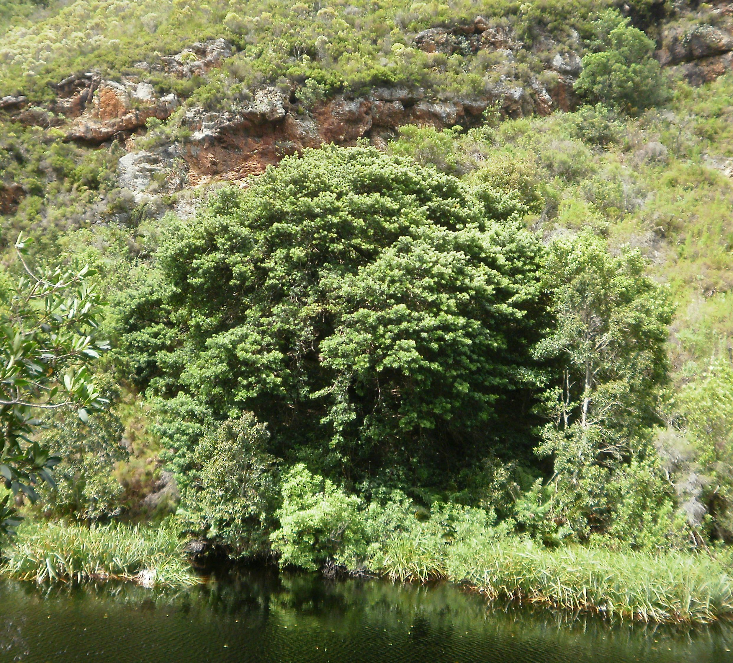 Real Yellowwood tree. Podocarpus latifolius. Riverside in South Africa.